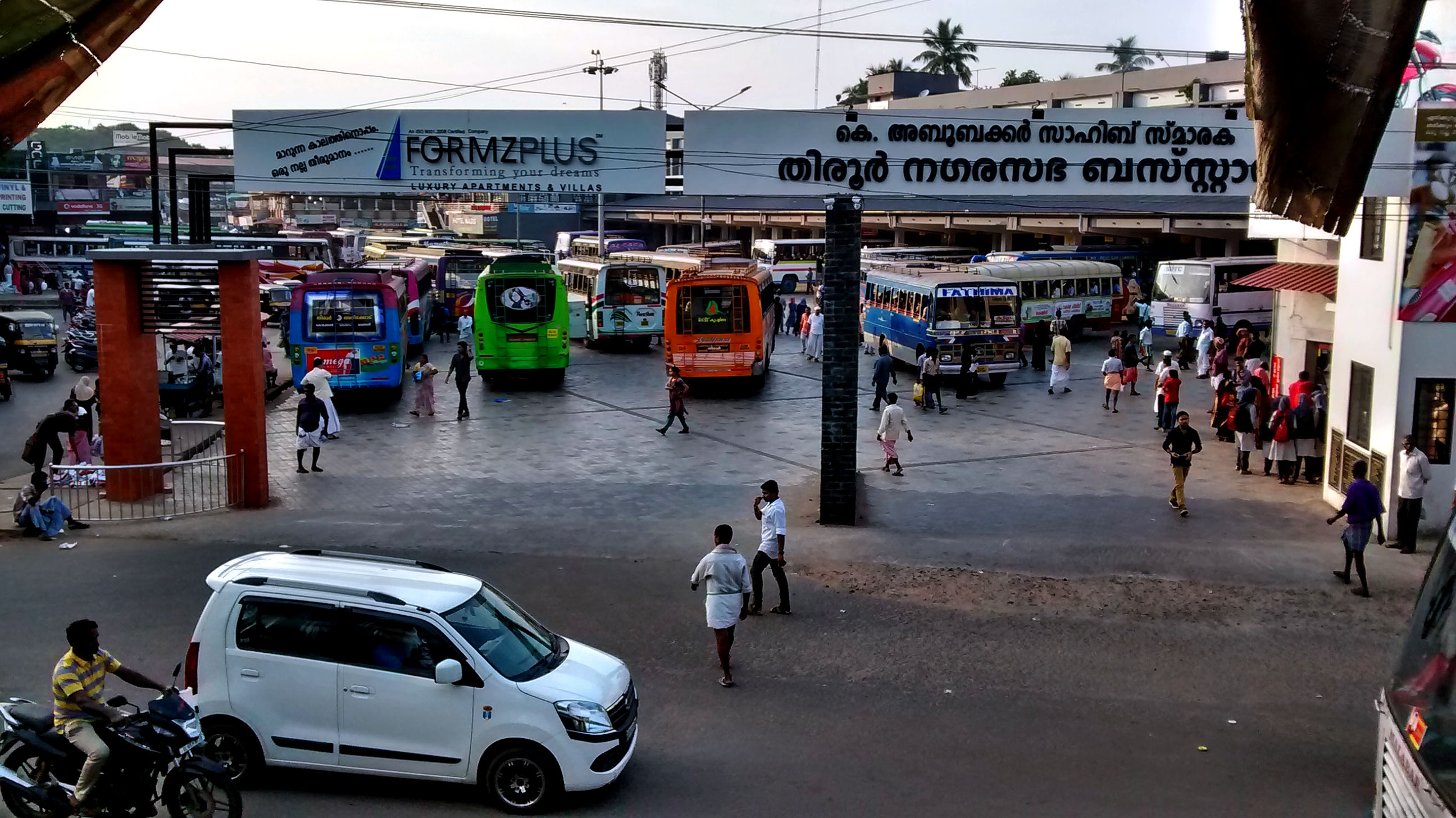 tirur bus stand